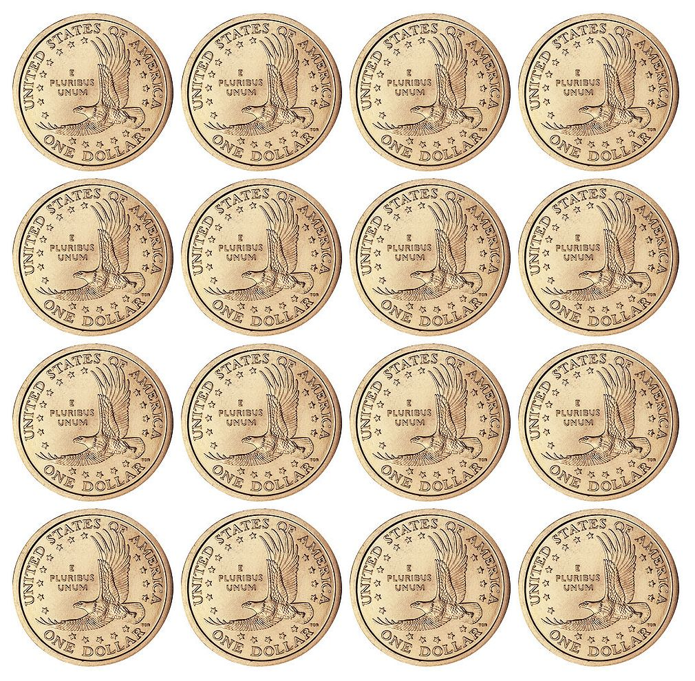 Sixteen coins in a 4x4 grid.